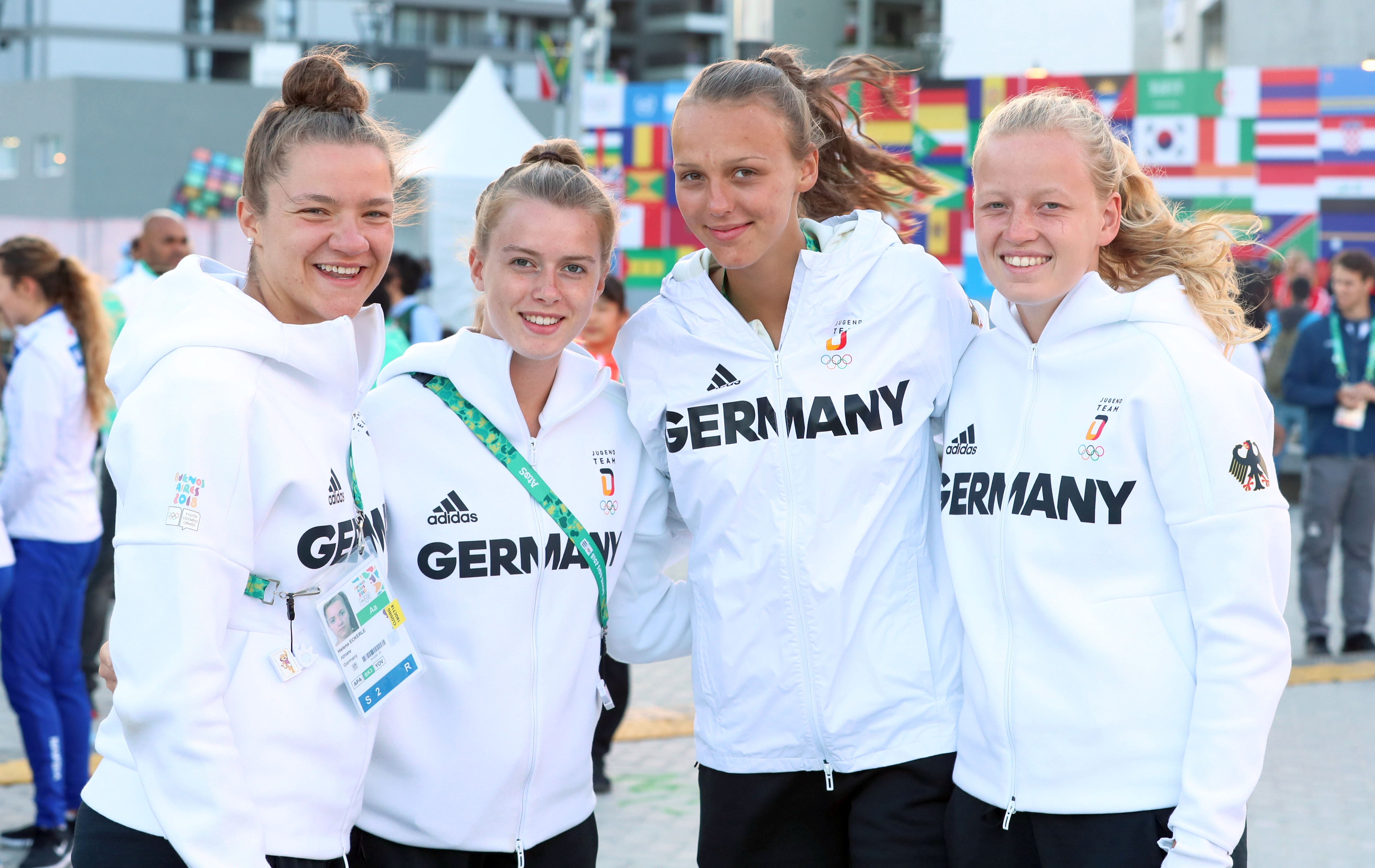 Closing ceremony at the 2018 Summer Youth Olympics in Buenos Aires